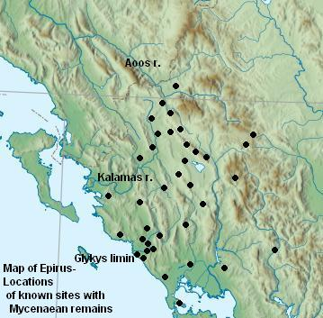 Map of Epirus showing the locations of known Mycenaean sites